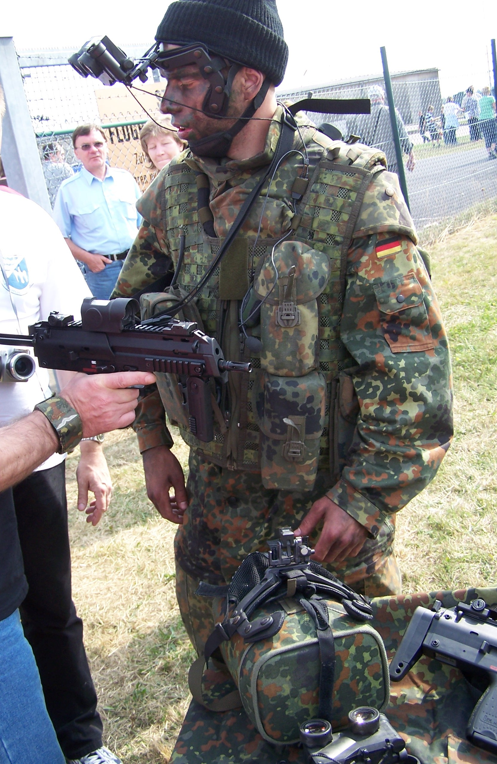 A German Army soldier demonstrates the equipment of the IdZ program.